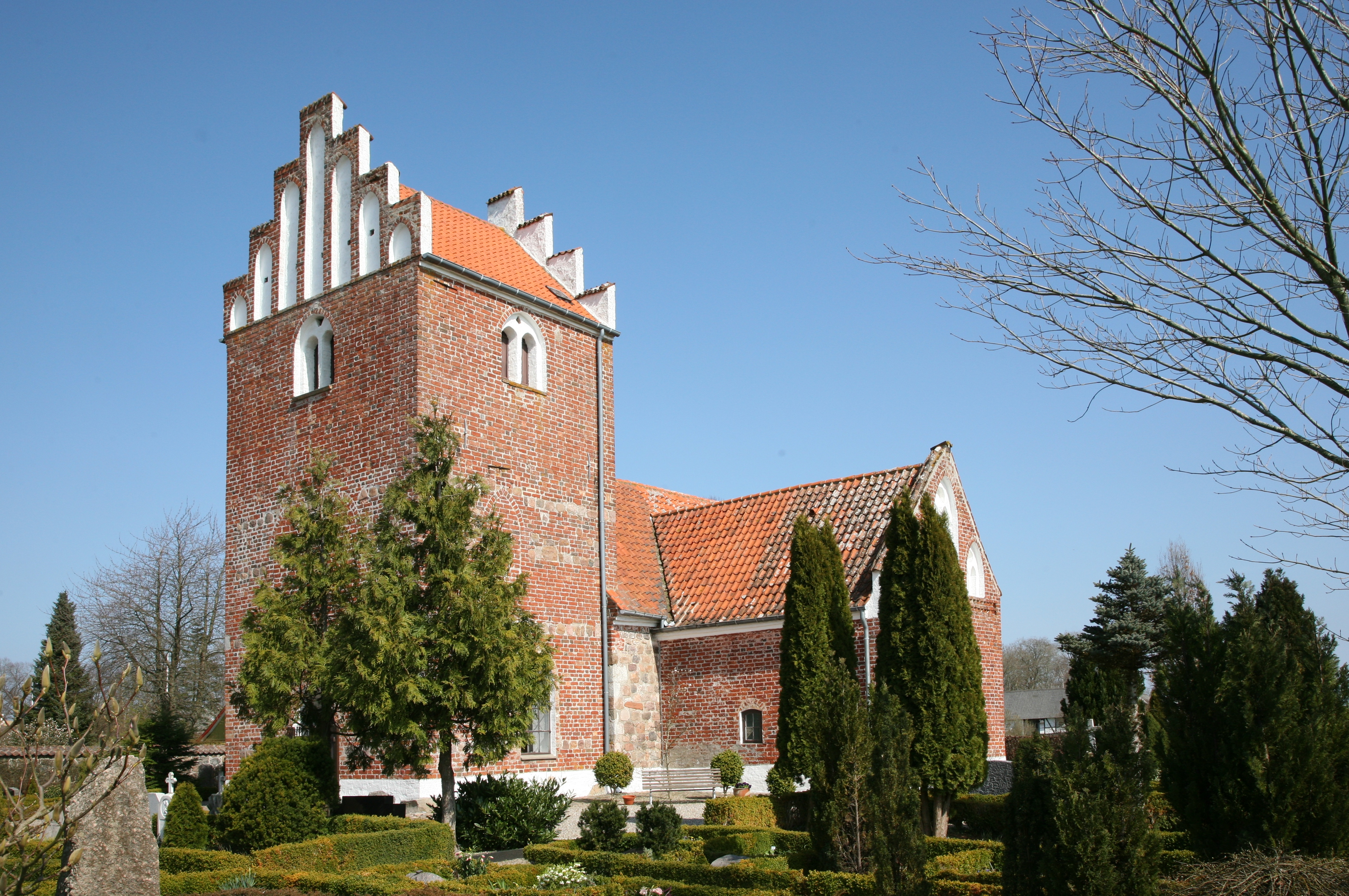 Vester Broby kirke - a village church south of Sorø in Denmark - famous for its wall paintings